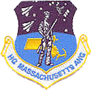 Massachusetts Air National Guard - Emblem